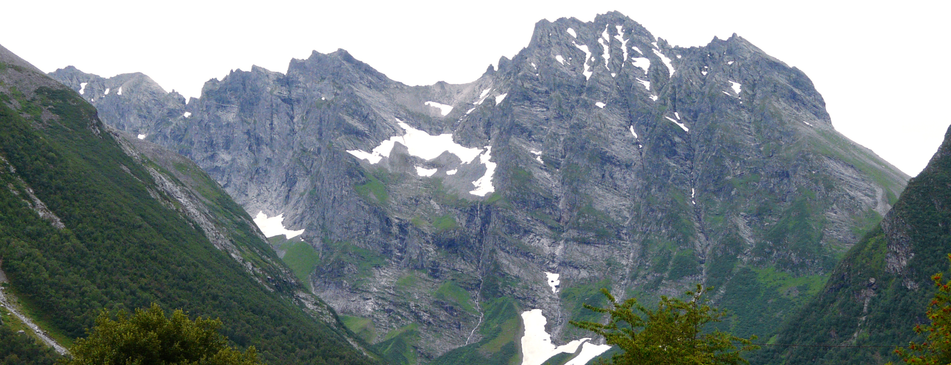 Urkedalstindane as seen from the south at the village of Urke in 2008 August.